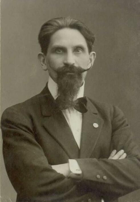 Etbin Kristan (1867-1953), slovene politician and writer.